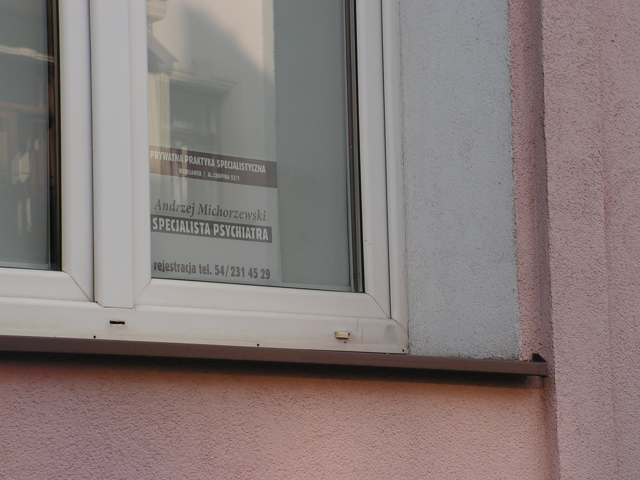 Board of private specialist practice of psychiatrist Andrzej Michorzewski at 51/1 Chopin avenue (enter from 16 Bojańczyka street). Andrzej Michorzewski ist known as a writer of songs texts of Kobranocka band and publicist.